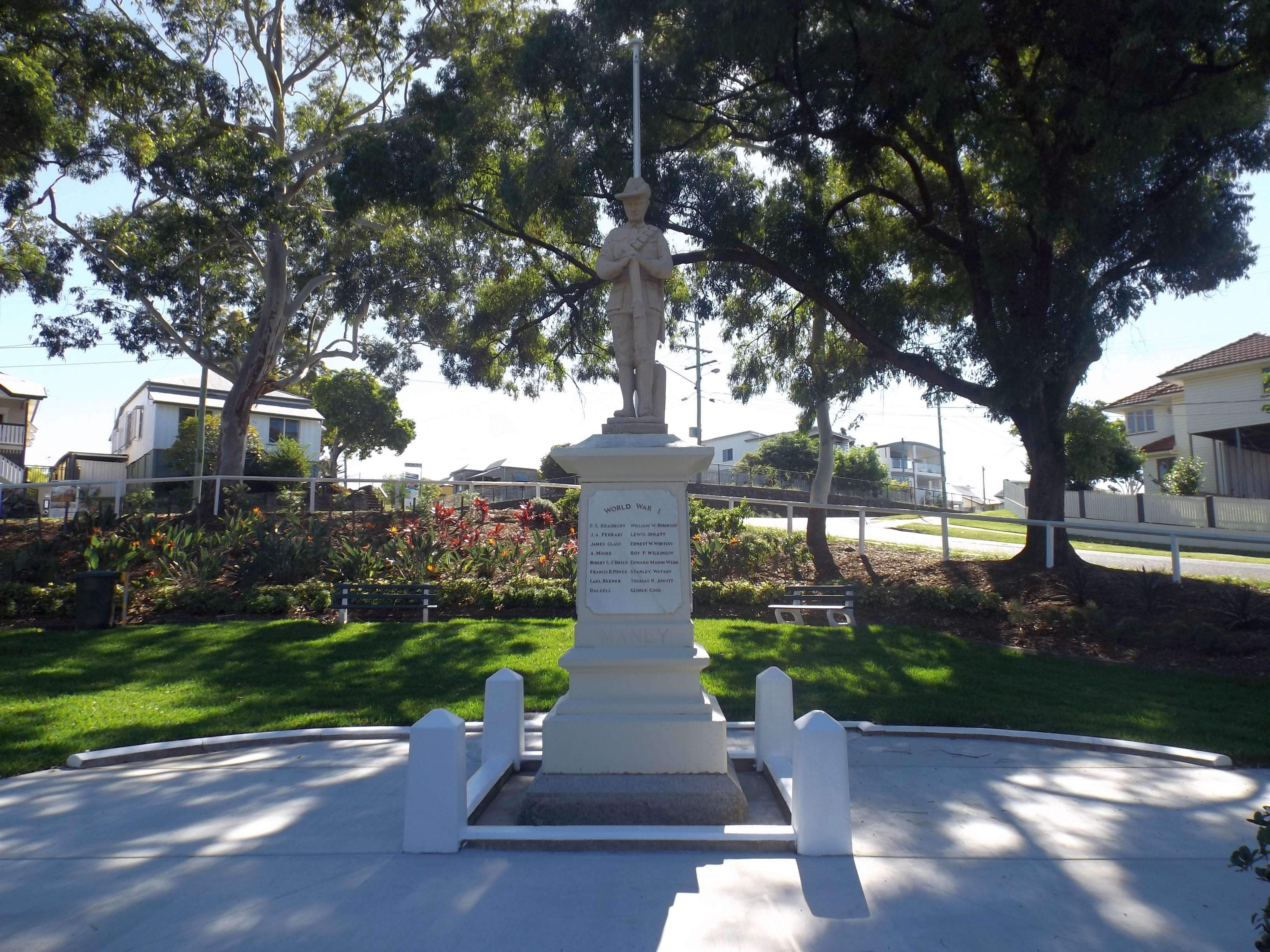 Photo of Manly War Memorial and park at Manly, Brisbane, Queensland, Australia.